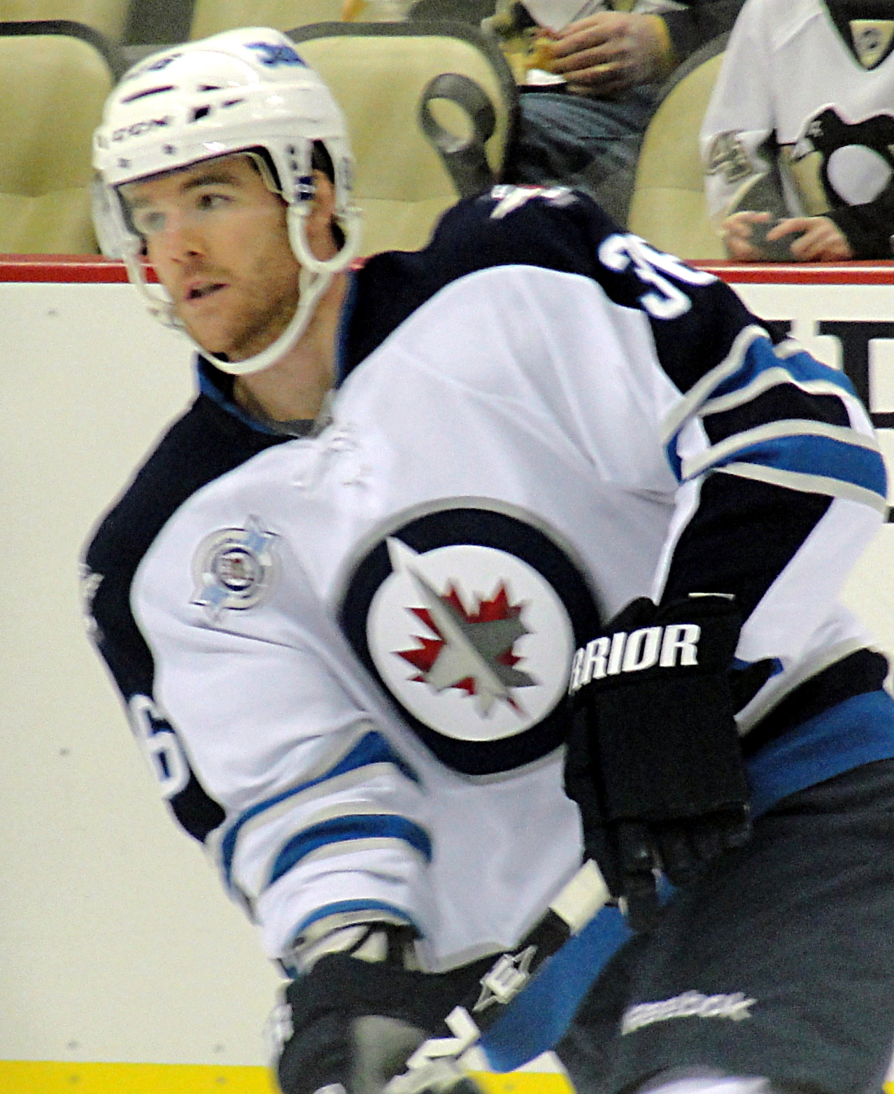 Mark Flood of the Winnepeg Jets during a game against the Pittsburgh Penguins, February 11, 2012 at Consol Energy Center in Pittsburgh, PA.